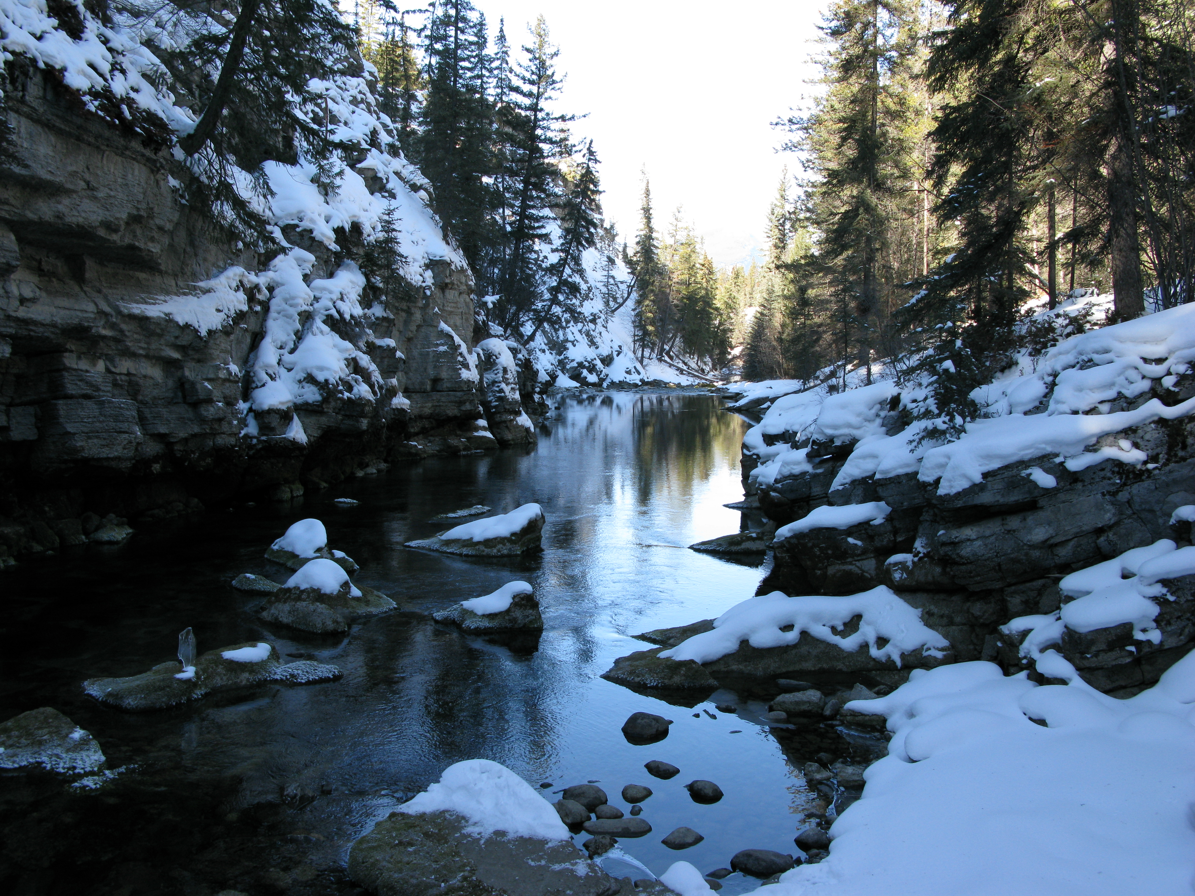 Wheateater